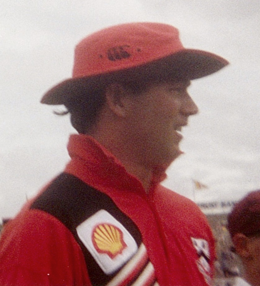 Lee Germon leaves the field after Canterbury vs. Wellington Shell Cup cricket match at Lancaster Park, Christchurch, N.Z. on 9 January 1993.